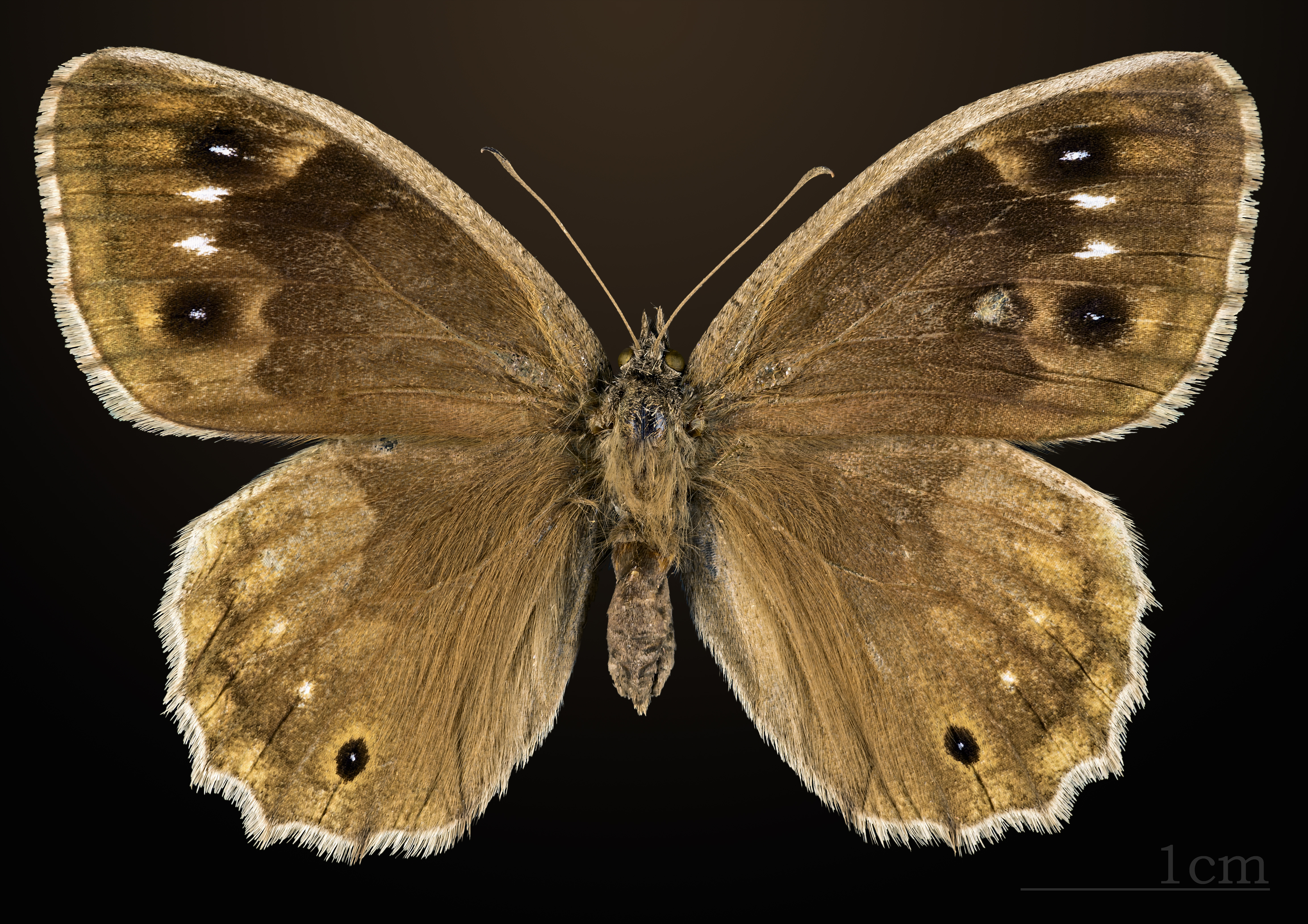 Tree Grayling ♀ - Dorsal side Locality: Fontanes, Lot, France